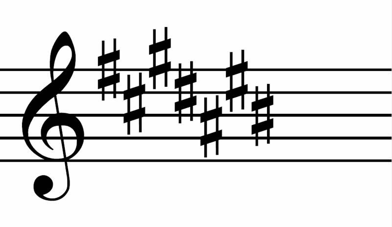 C sharp major/A sharp minor